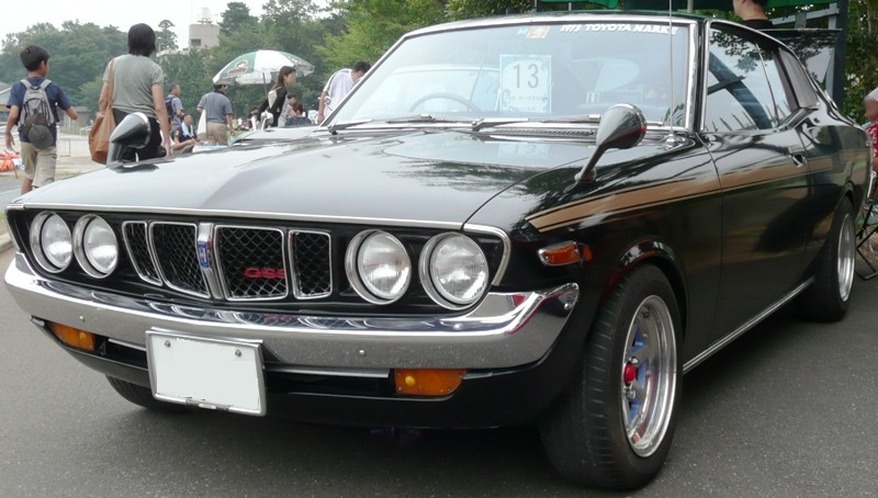 Toyota Corona MarkII GSS.